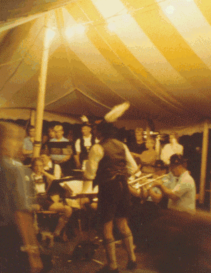 Blue Lake staff and students join with Rottenbuch town band in the Bavarian foothills. Lead trumpet is Michigan State University Director of Bands Ken Bloomquist.